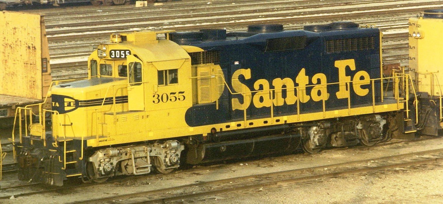 Santa Fe Railroad 3055, an 1961 built EMD GP20, awaits its next duties in the yard at San Bernardino, December, 1987.